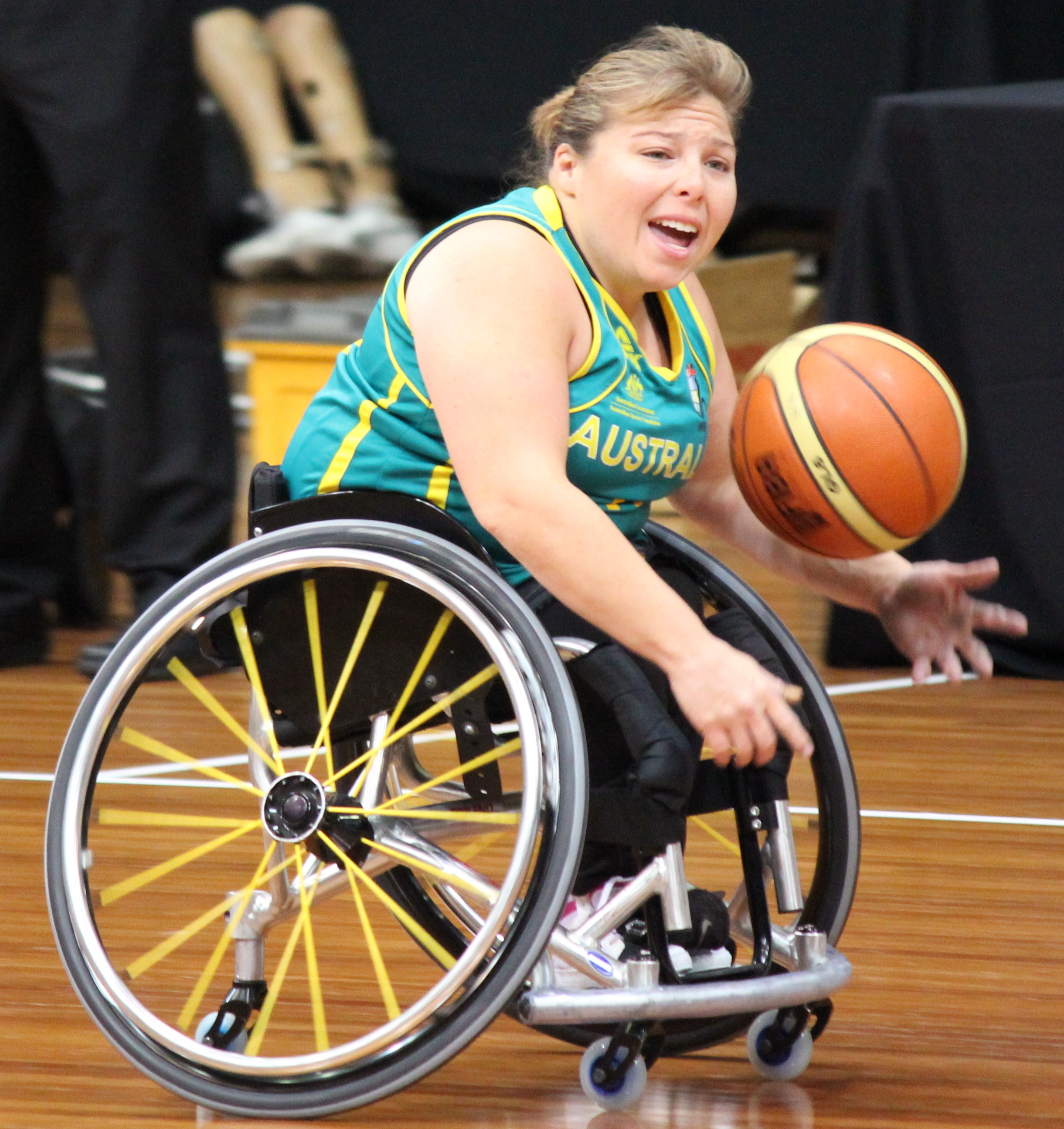 Aussie Gilder player Kylie Gauci in July 2012 in Sydney.